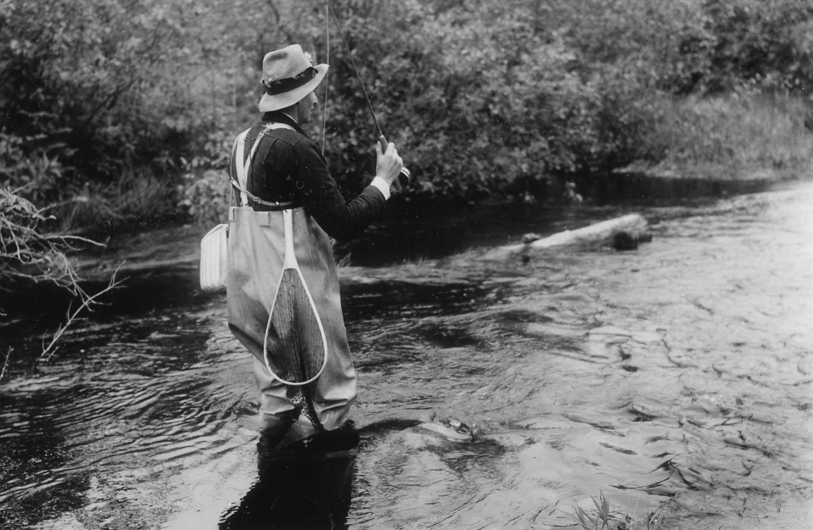 Scope and content: Original caption: Mile Howell of Rochester, Michigan, fly fishing in pool below stream improvement structure ("Y" deflector) on east branch of Tahquamenon River.